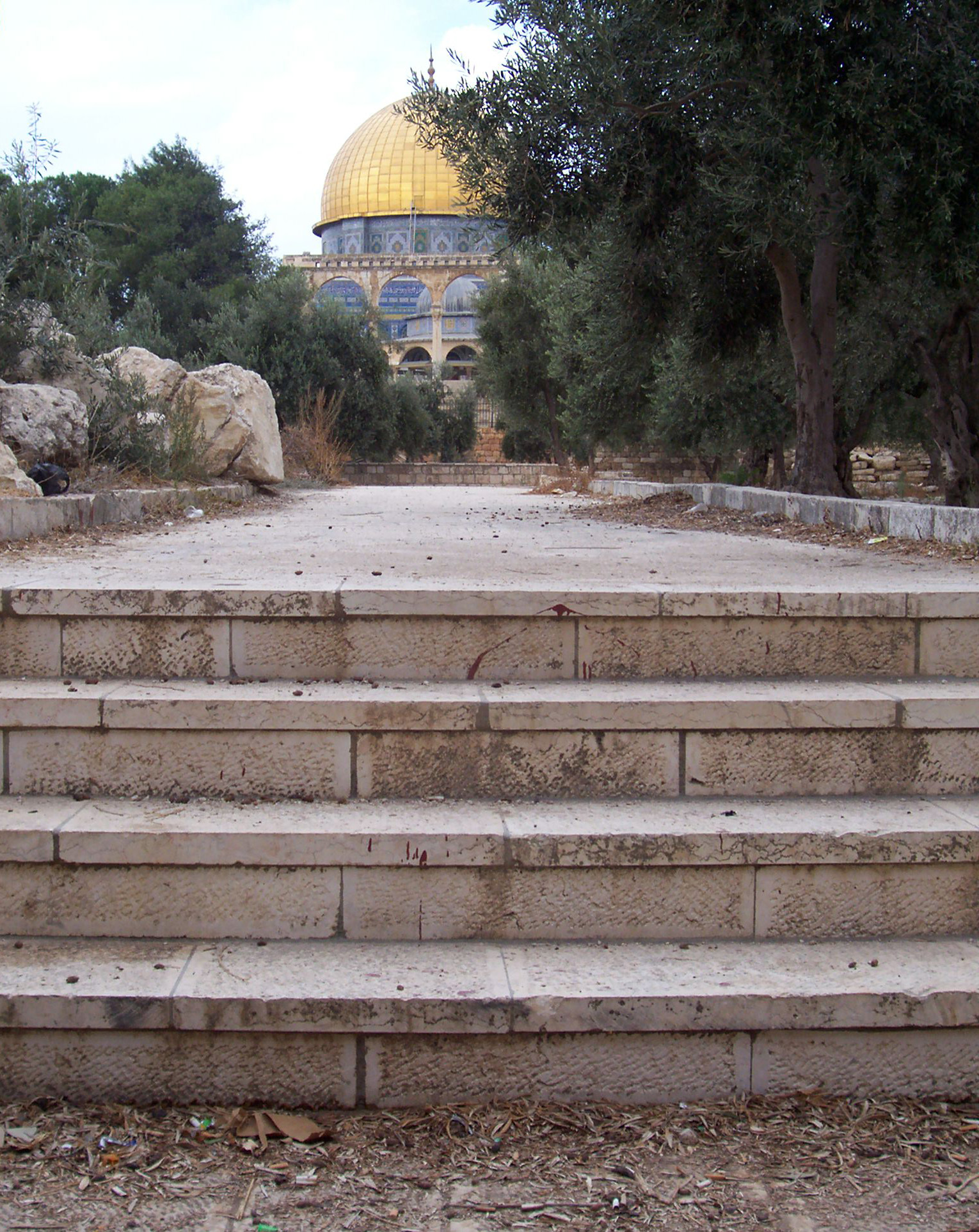 stairs leading to dome of the rock from east